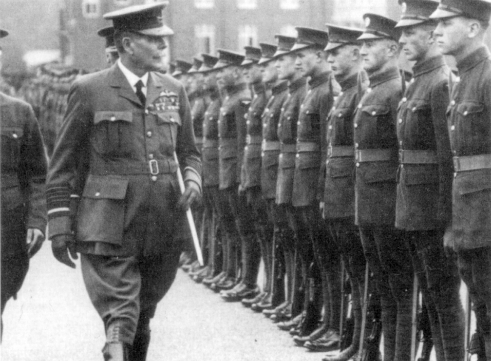 Photograph of Lord Trenchard inspecting airmen probably at RAF Halton.